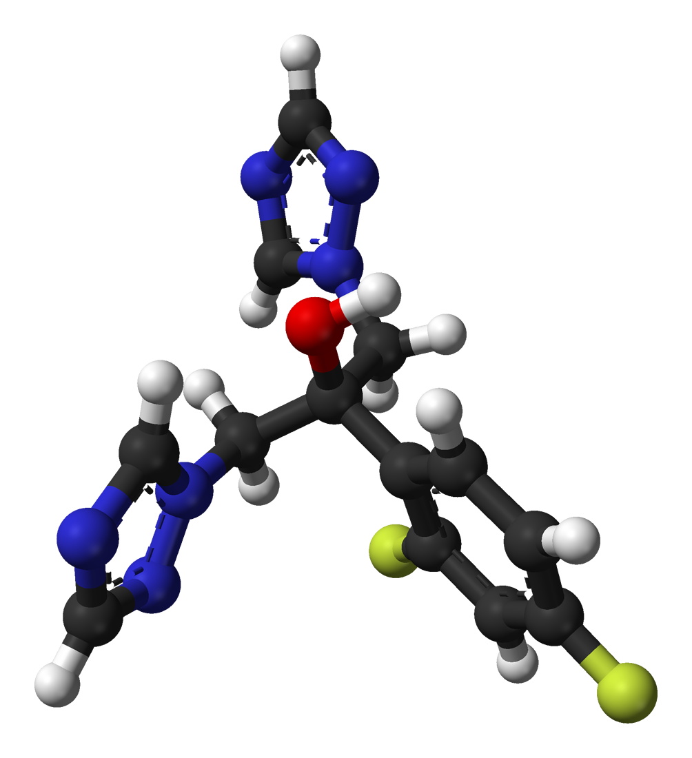 Ball-and-stick model of the fluconazole molecule, C13H12F2N6O, based on PDB 2ij7.